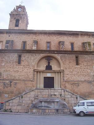 Fachada oriental de la iglesia arciprestal de San Pedro y San Pablo de Ademuz (Valencia, España). Siglo XVII. Obra de Pedro de Ambuesa. Escalinata de la Plaza del Rabal.